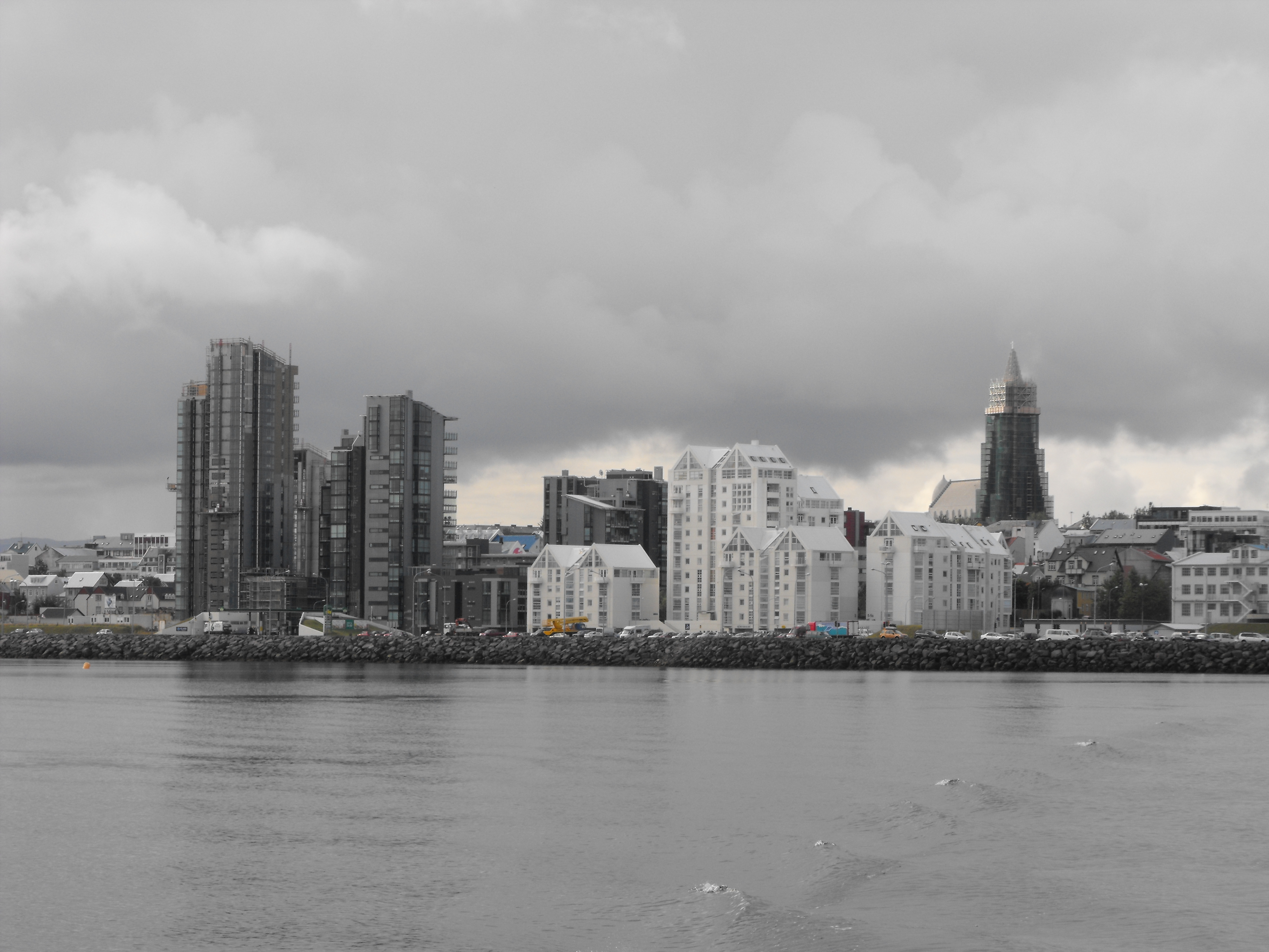 Reyjkavik from the sea - Iceland